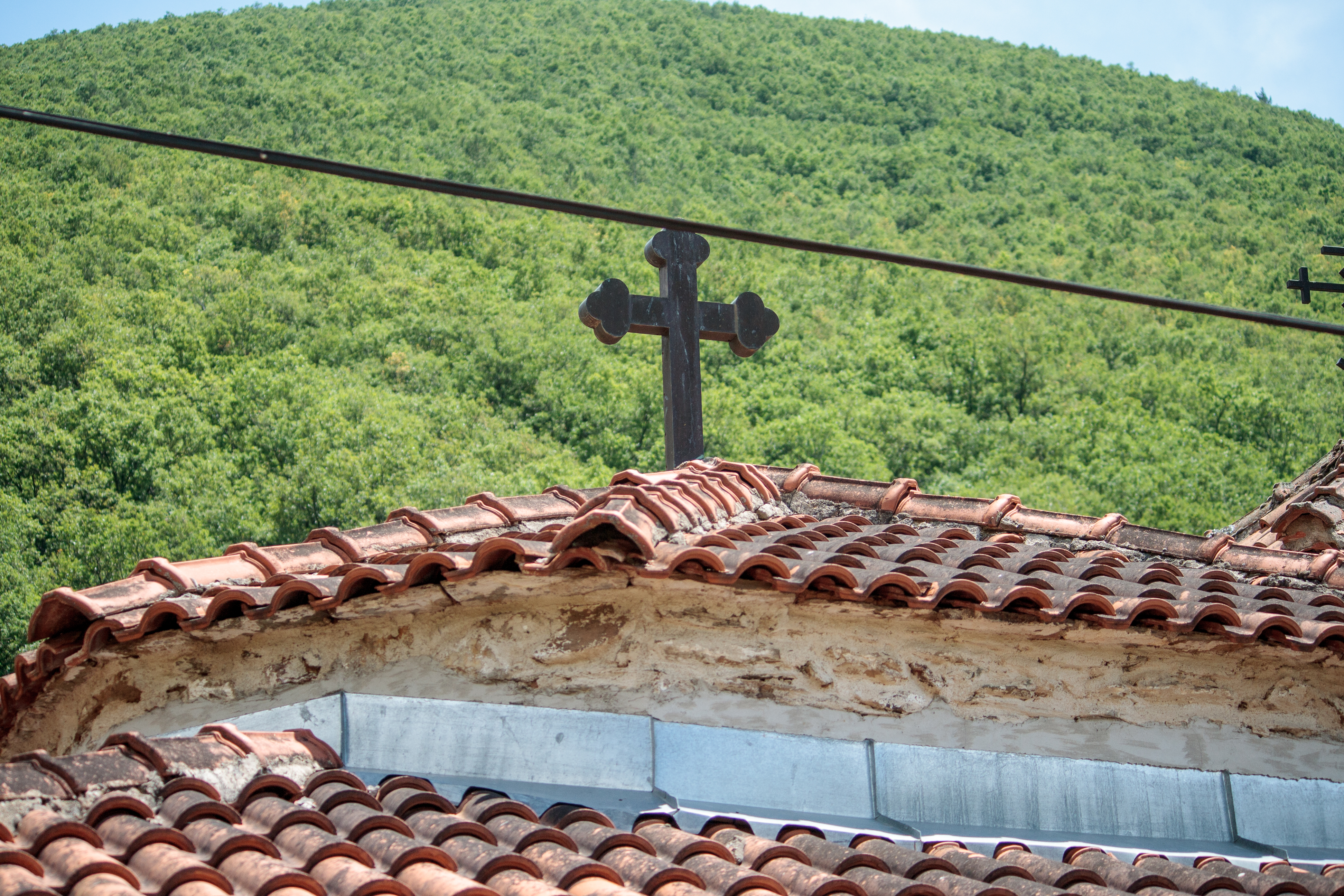 Cross in St. Athanasius Church in the village Žurče